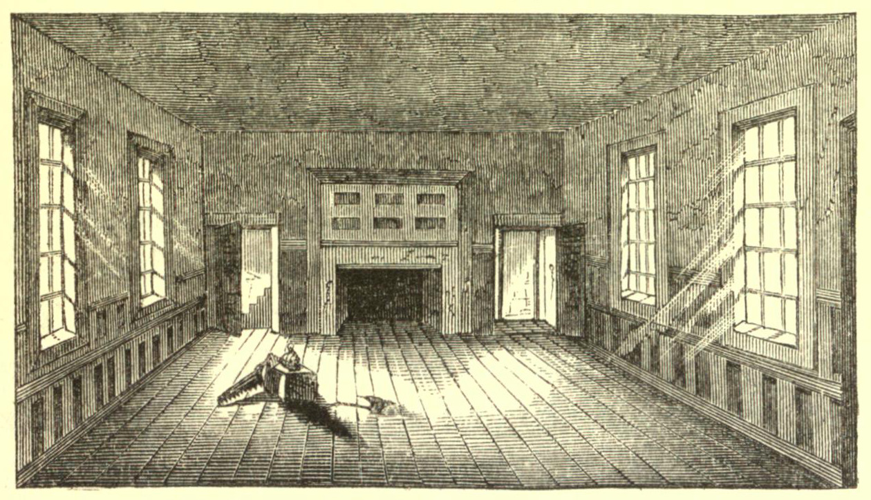 Interior of the Apollo Room of the Raleigh Tavern in Williamsburg, Virginia, as it appeared during Lossing's visit in the 1850s, as it was about to be renovated (according to the text of the book, hence the tools in the middle). This was shortly prior to its destruction by fire in 1859. From the 1860 edition of Benson Lossing's The Pictorial Field-Book of the Revolution.